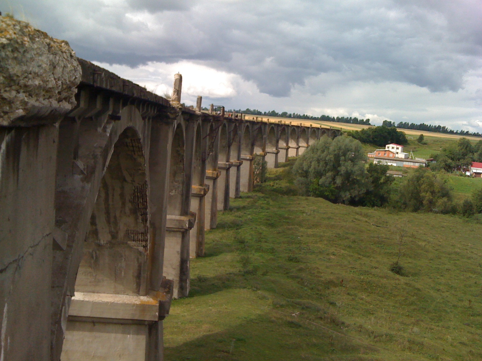 Abandoned Bridge, Kanashsky District, Chuvasia, Russia